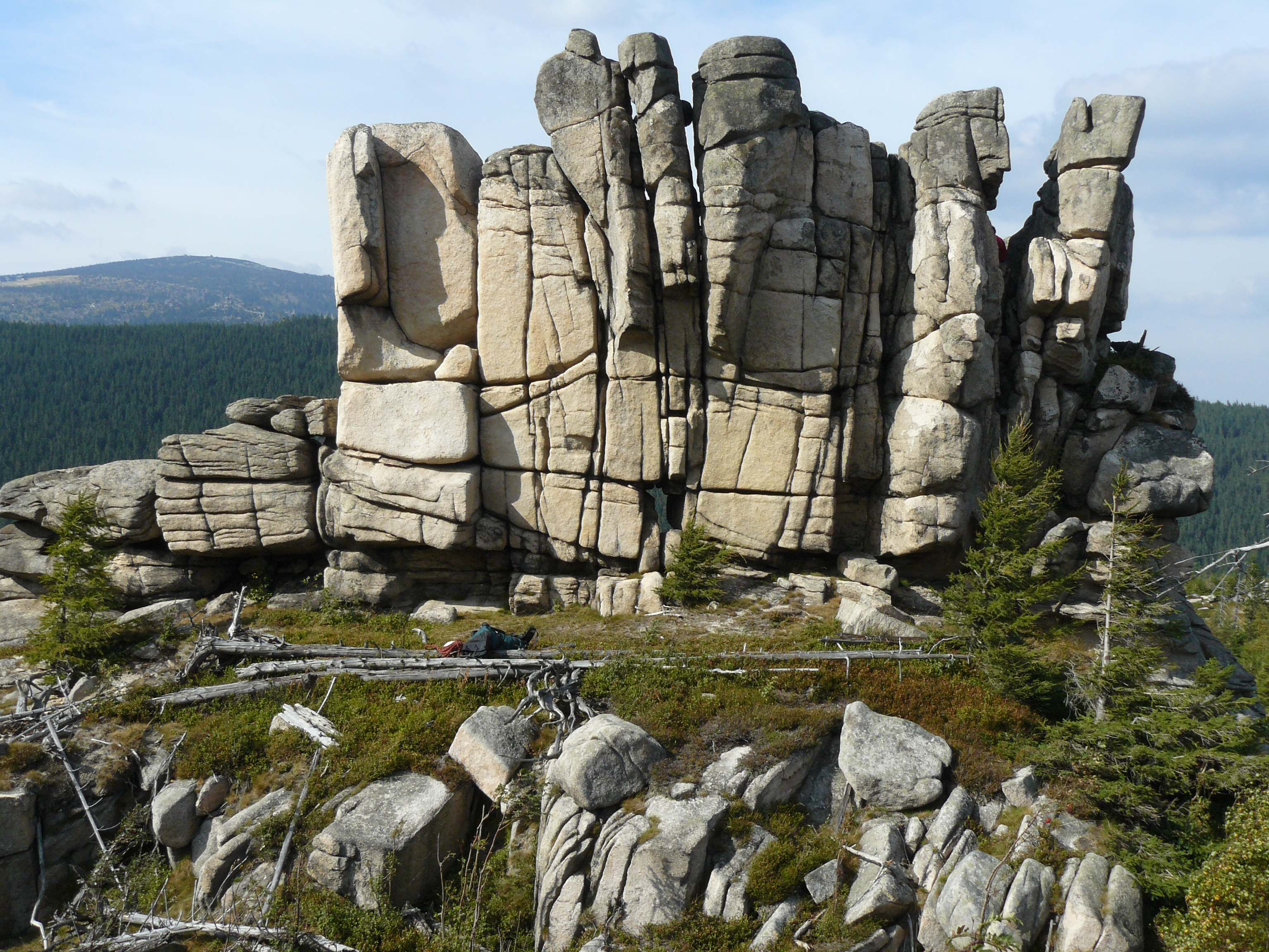 Little granite rock in Krkonoše mountains